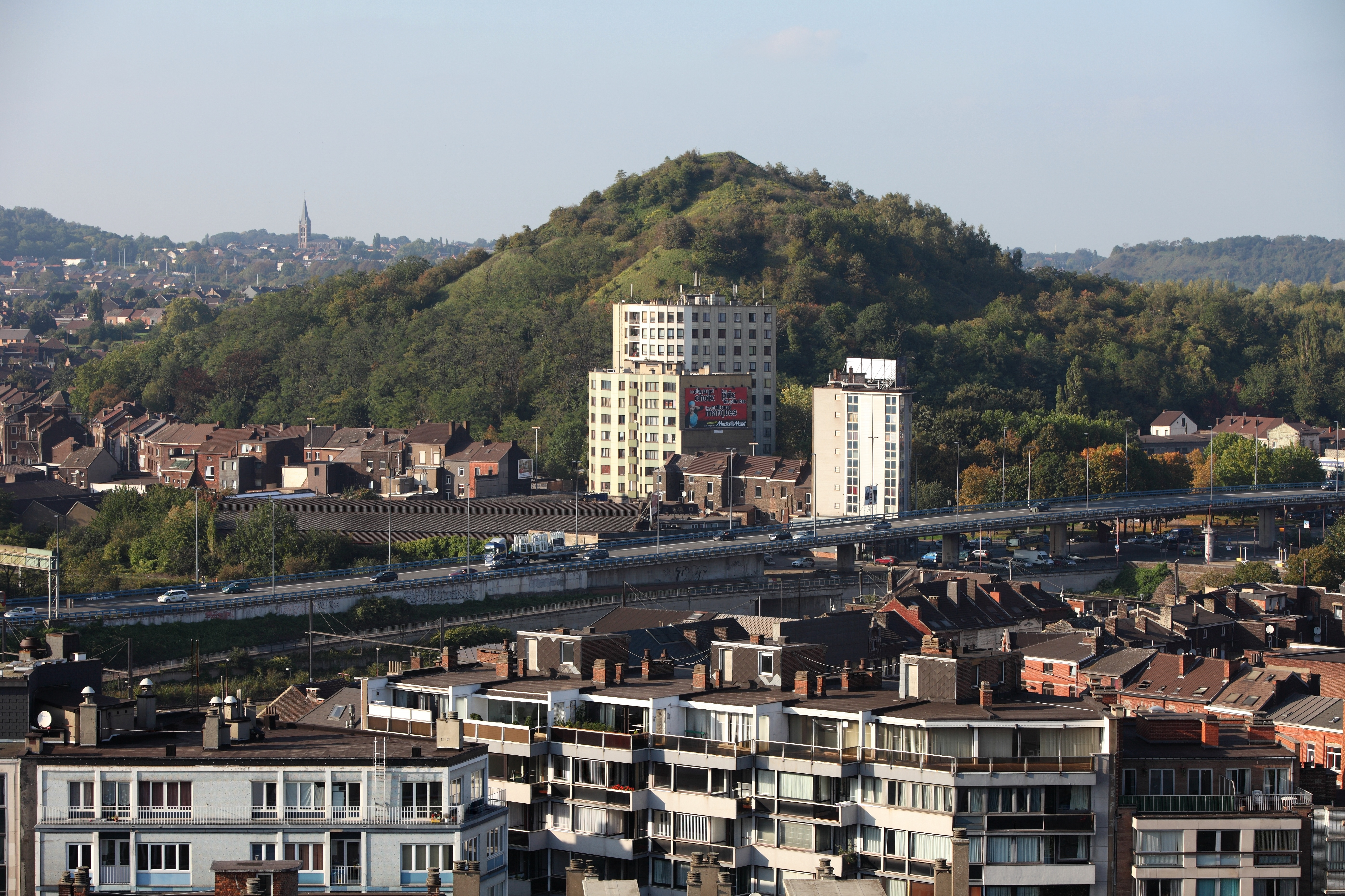 CHARLEROI, BELGIUM 08/10/2010 : Illustration of the terril ( mount of coal of Dampremy and the ring. ( Photos by Christophe Vandercam )